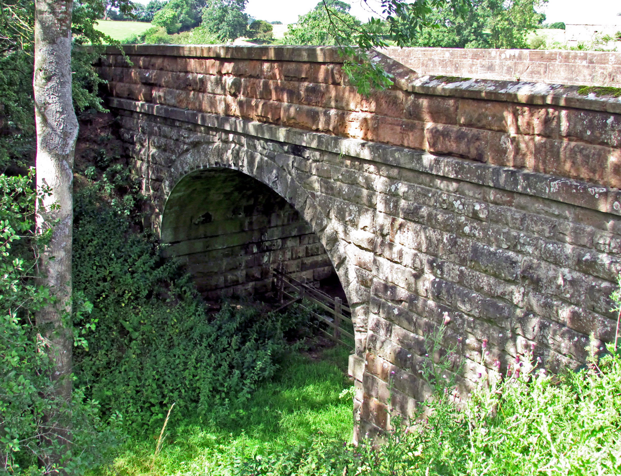 Bridge over the closed railway line just north of Musgrave railway station Cumbria England